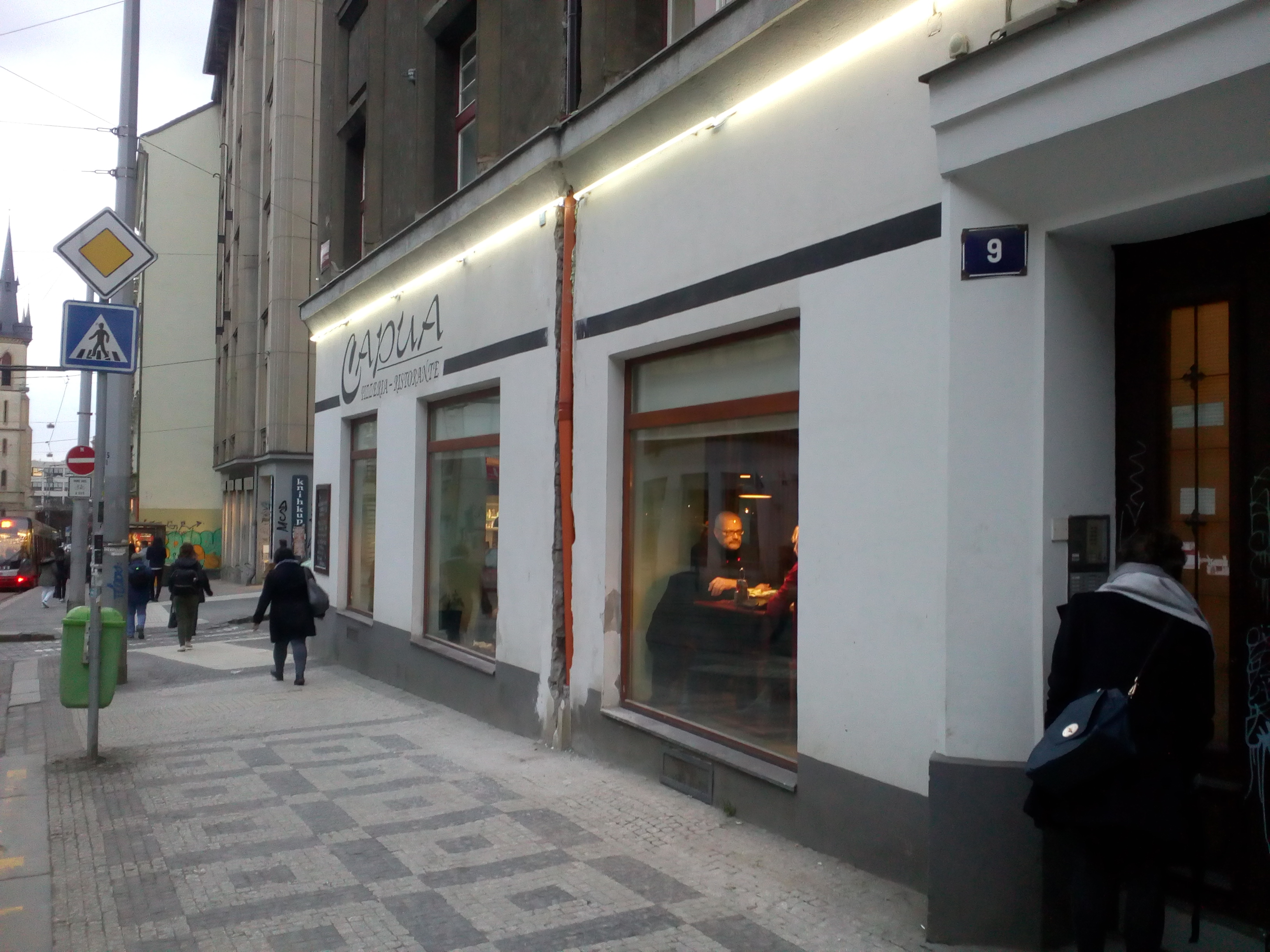 Actual site of olga hepnarova slaying 3/21/2017 -- milady horakove x veverkova East-bound, one block before strossmayor square, old tram site.